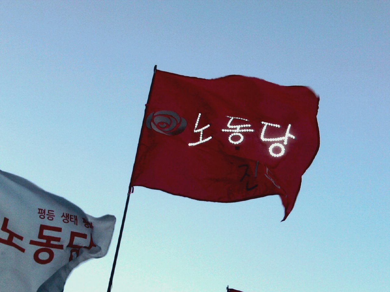 2013-12-28 Korean Confederation of Trade Unions General Strike